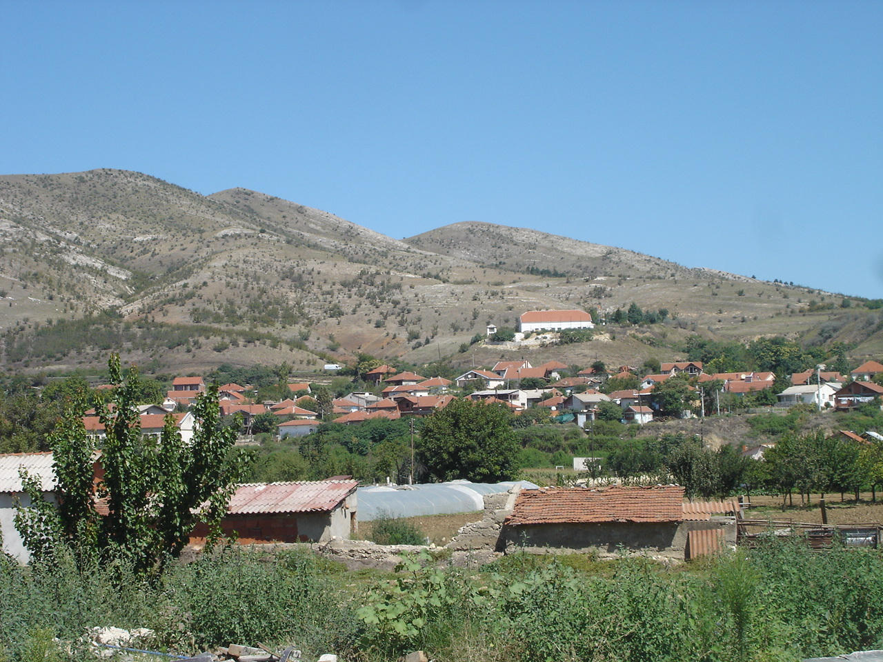 Bashino Selo, near Veles, Macedonia